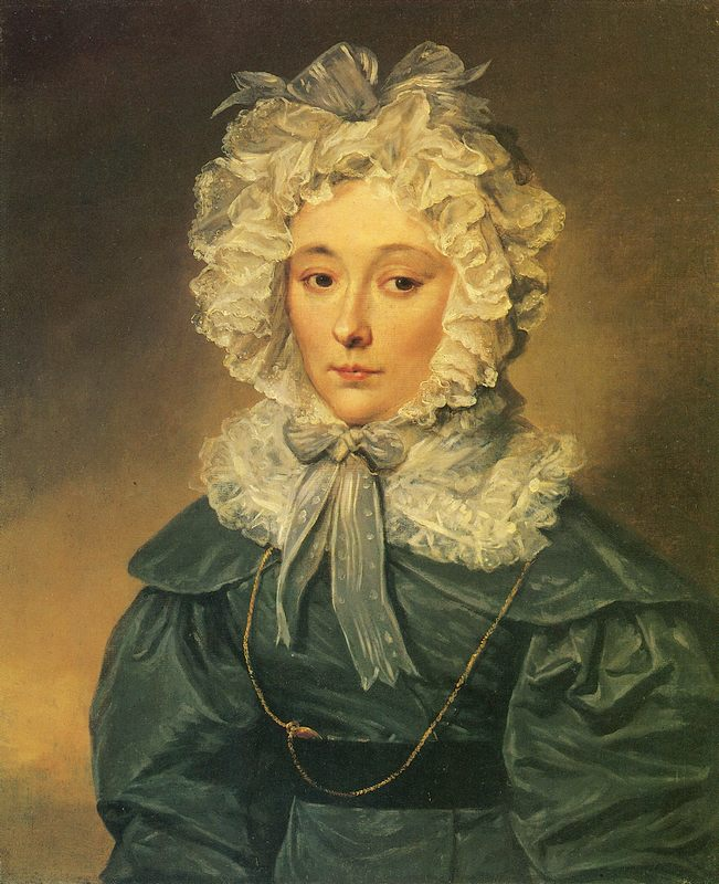 Portrait of Vera Muraviev Goryainova (1790-1867)